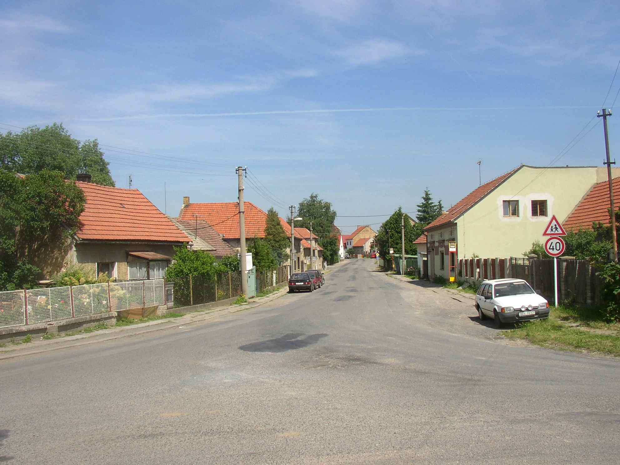 Chýně, Central Bohemian Region, Czech Republic Photo taken by Miaow Miaow in June 2005, PD-self